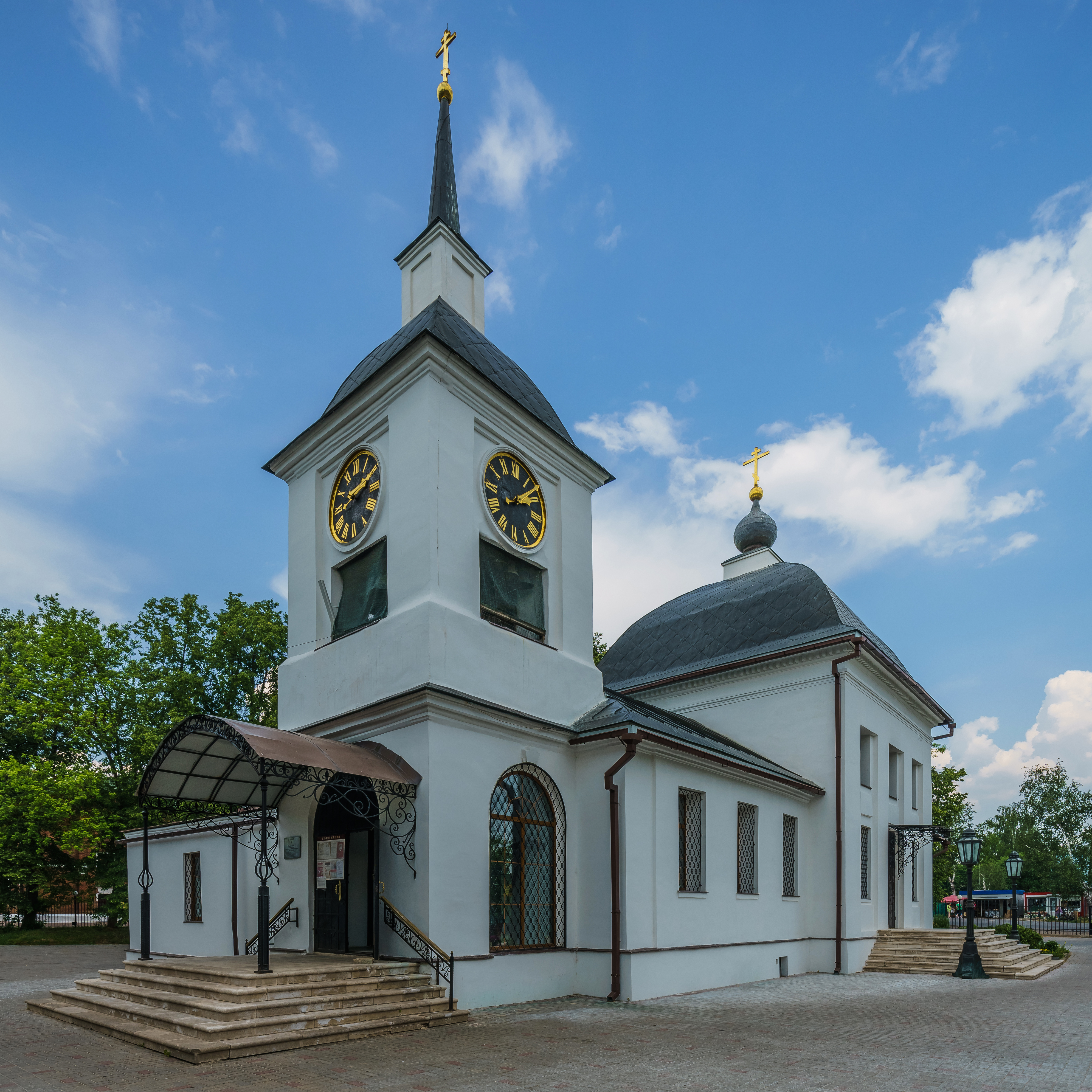 Alexandrovo-Schapovo Estate in Moscow, Russia